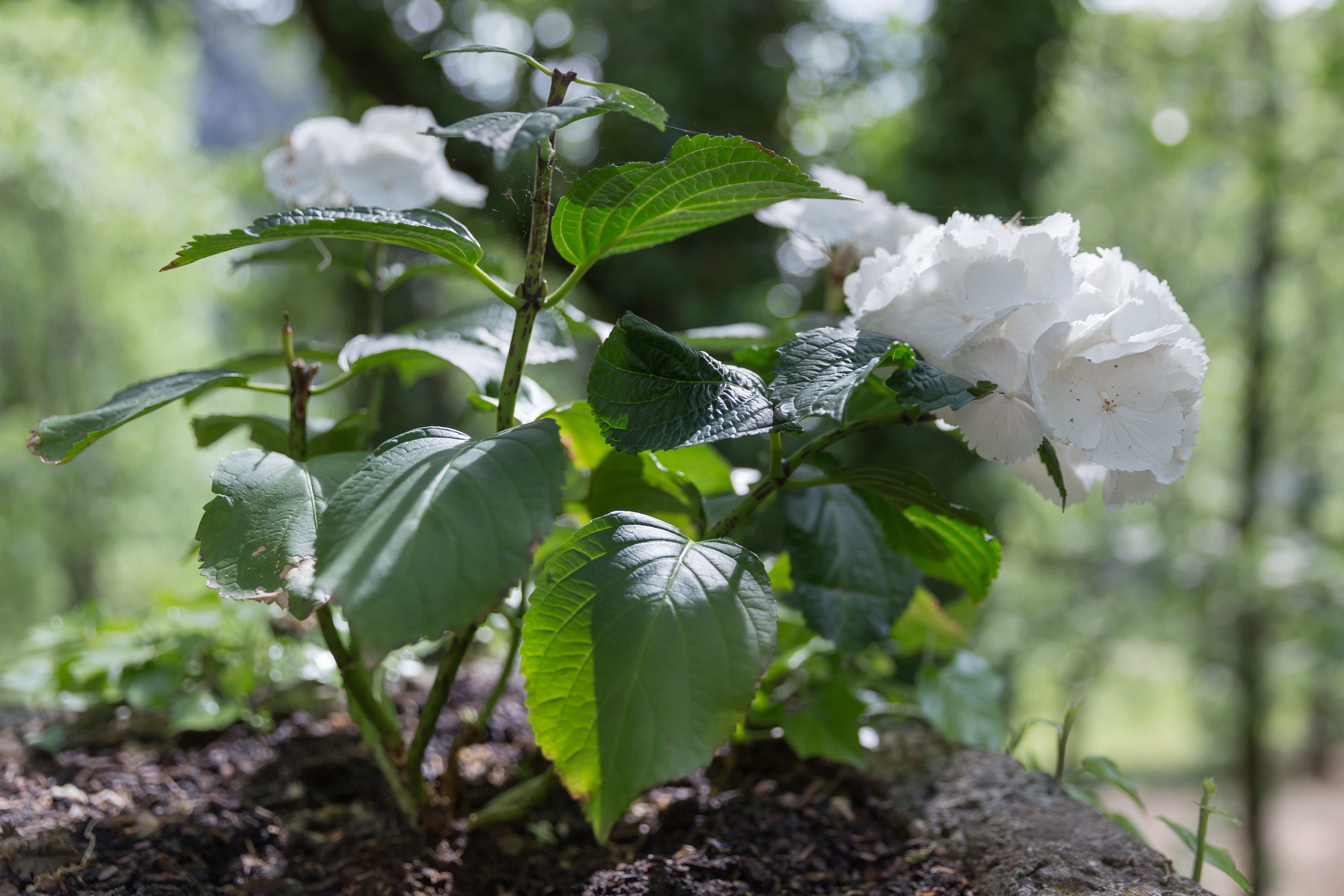 Hydrangea macrophylla (Hortensia) in Vallon-Pont-d'Arc, France.